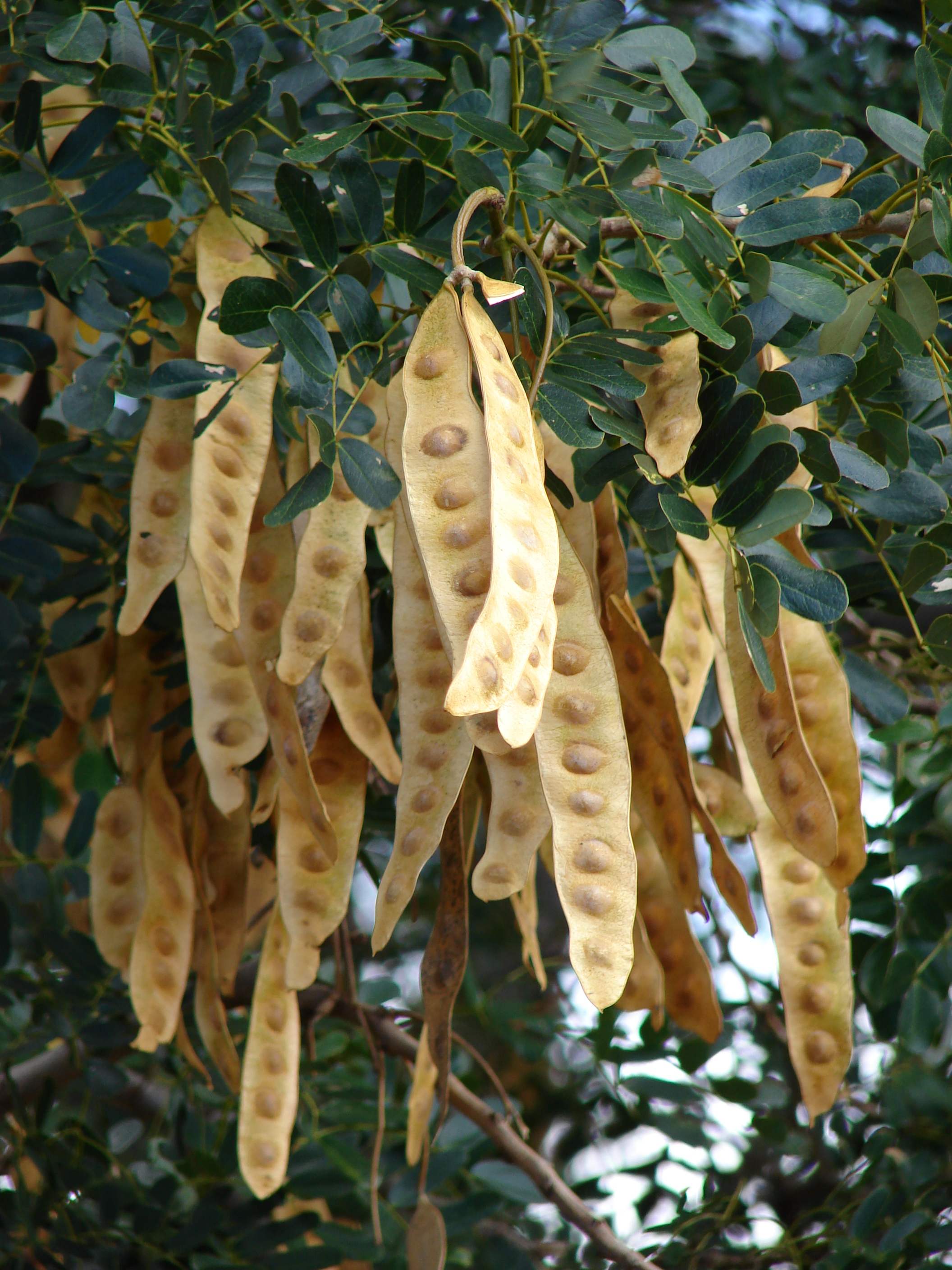 Albizia lebbeck (leaves and seedpods). Location: Maui, Lahainaluna